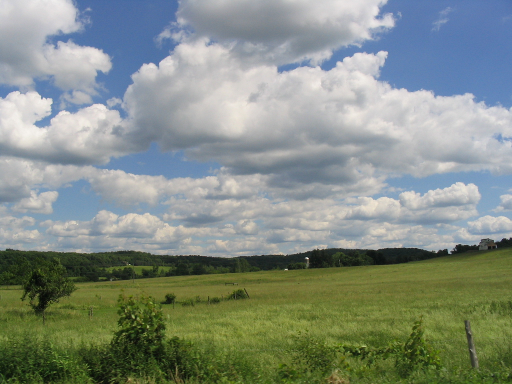 photo of the rural hills in Pompey, NY, taken by me on June 20, 2004